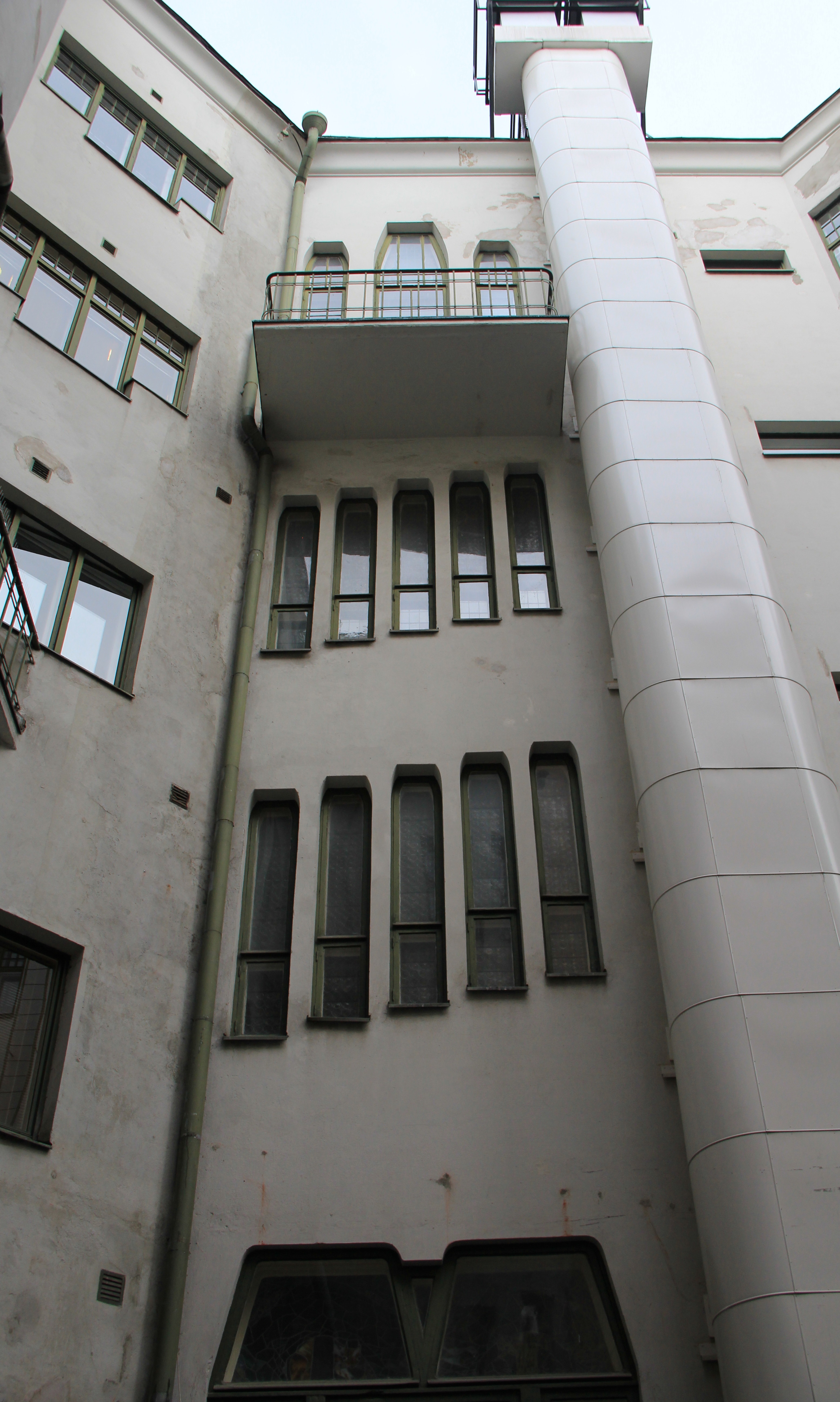 Argronomitalo, former Lääkäreiden talo, Kaartinkaupunki, Helsinki, Finland. - Designed by Gesellius, Lindgren, Saarinen Architects. Completed in 1901. - Inner yard, main stairway windows and bakery ventilation pipe.